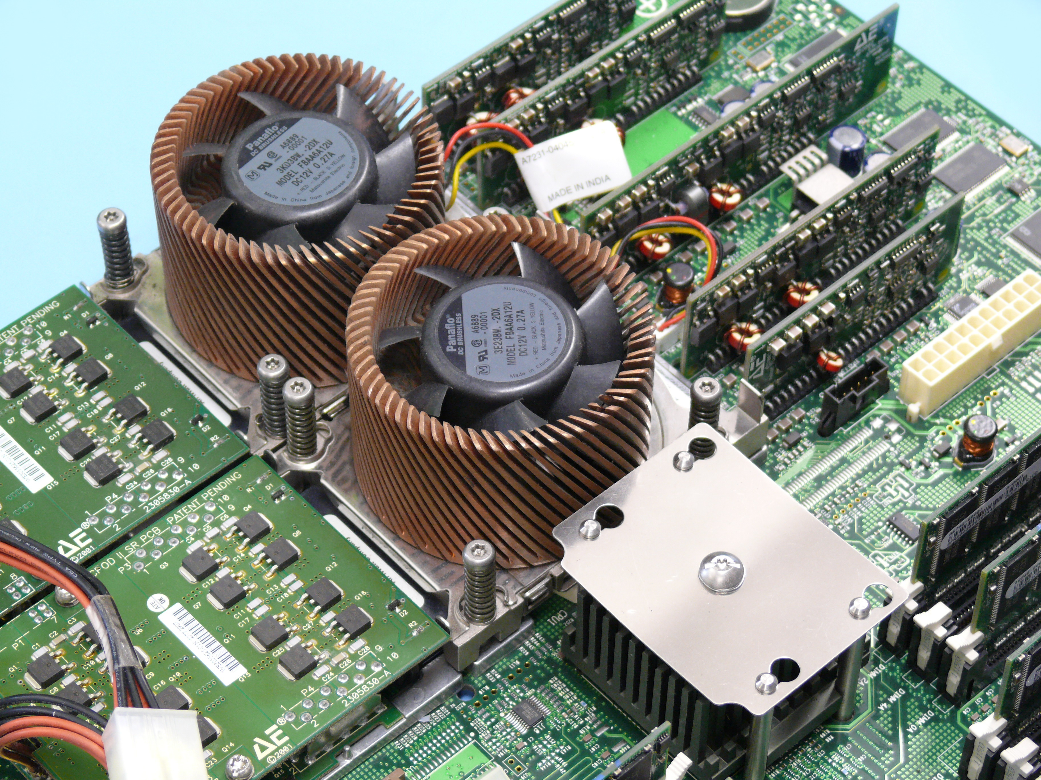 Hewlett-Packard HP9000 Unix Workstation, Model ZX6000 Itanium 2 Workstation System Board with two Intel Itanium 2 CPUs - Madison 1.3 GHz - 3 MByte L3 Cache, System Board Part No.: A7231-66510